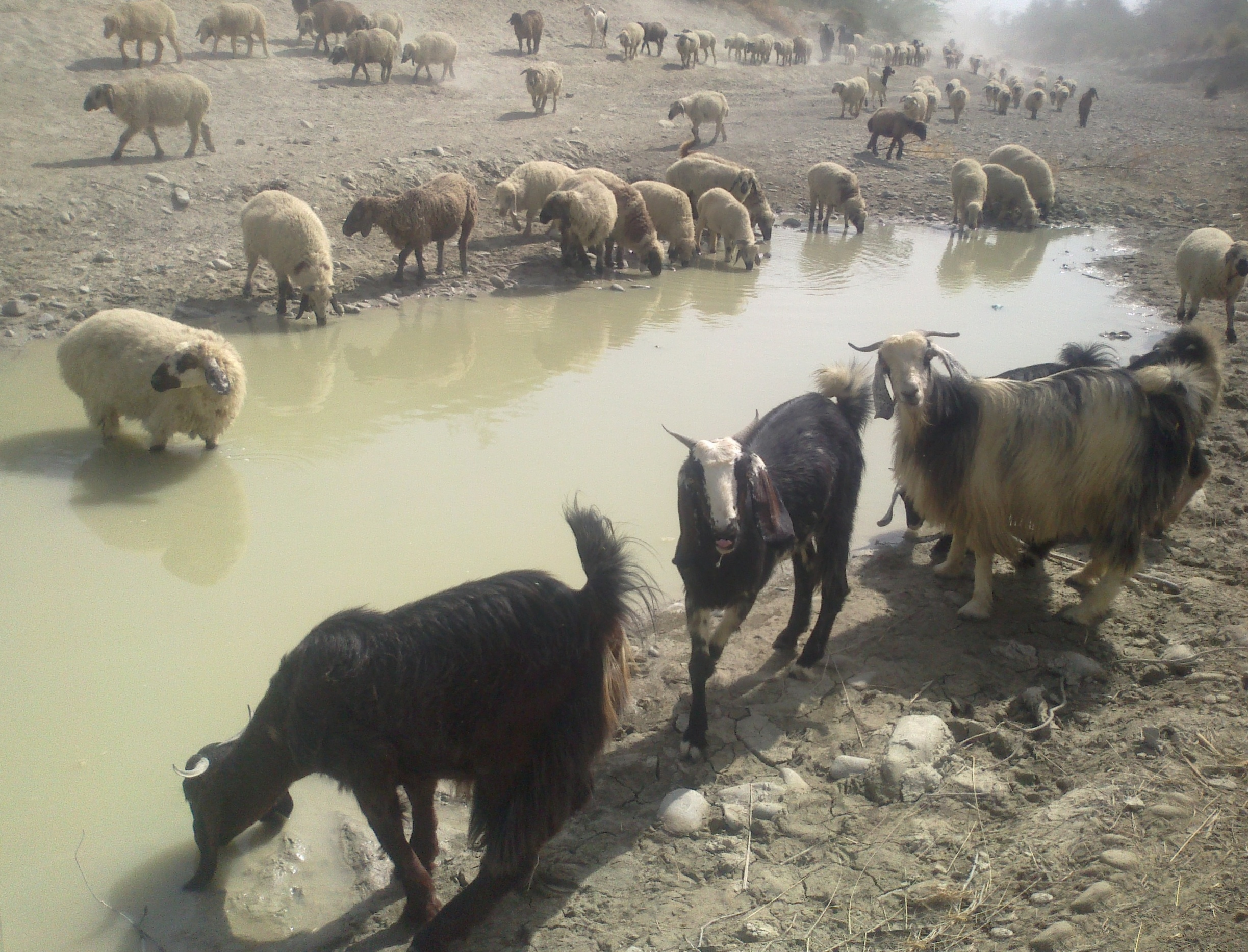 Sheep and goats, Turbat, Balochistan